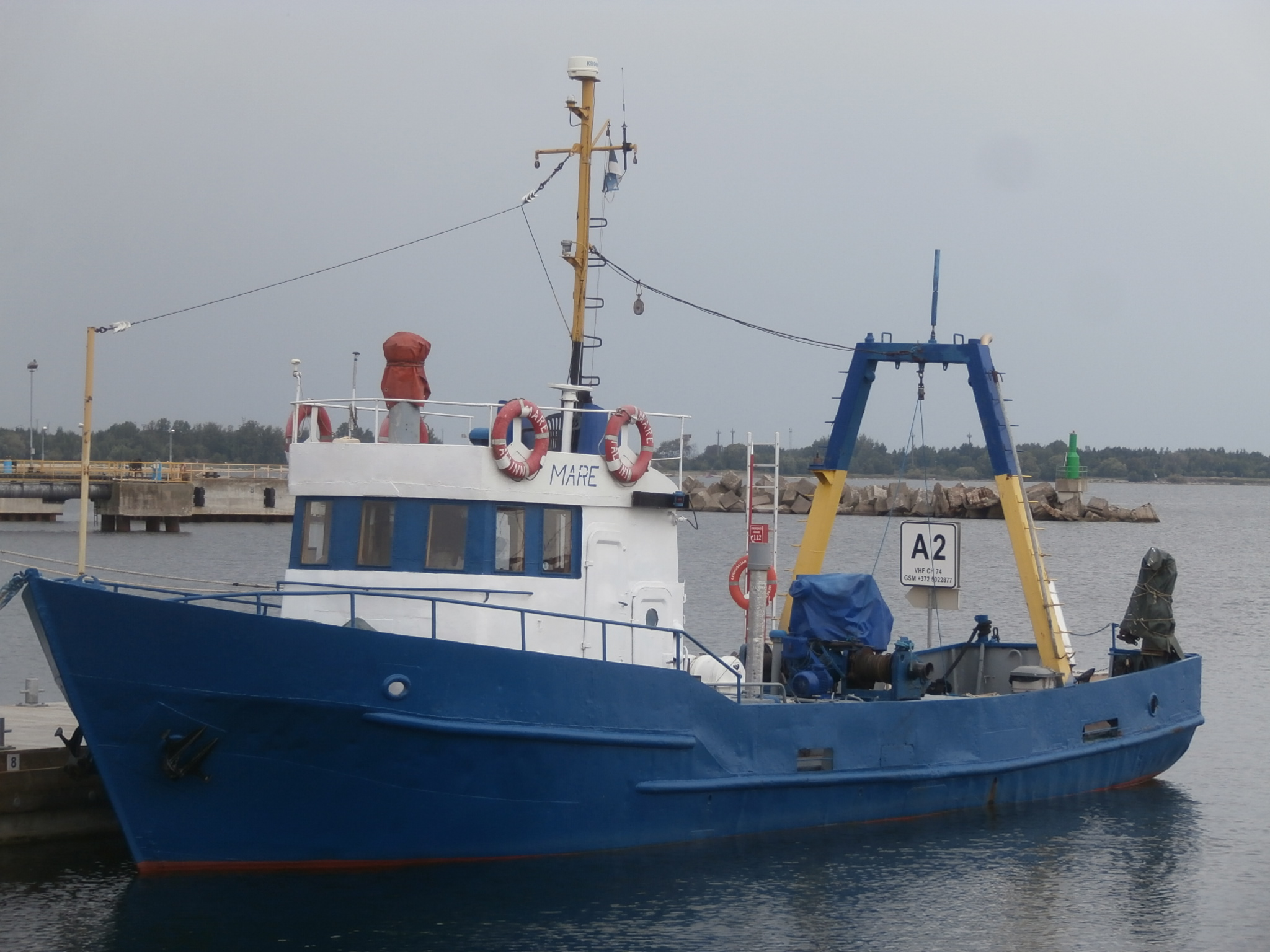 Mare at pier A2 in Lennusadam Tallinn 21 August 2016